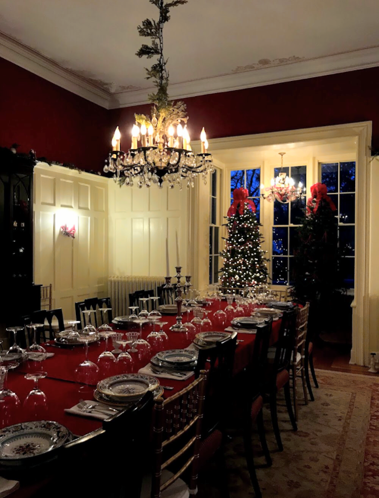 Original drawing room now staged as a dining room. Decorated for Christmas in 2018.